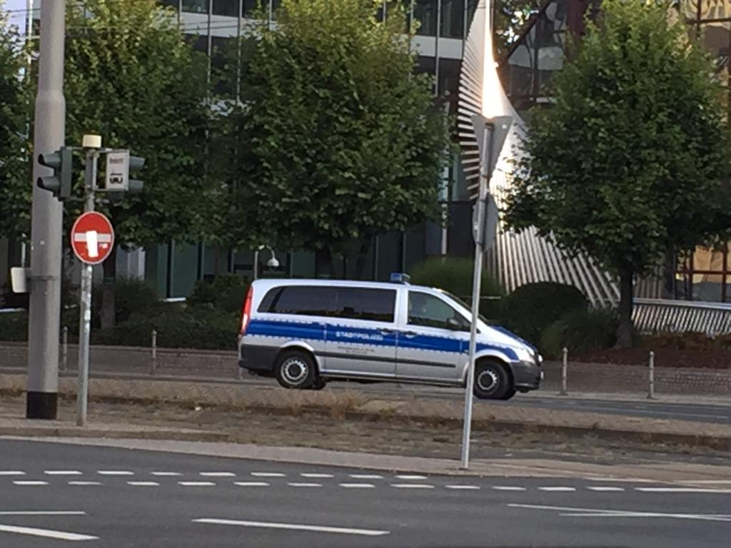 road block by a van of the Stadtpolizei Frankfurt in front of the Messe Frankfurt